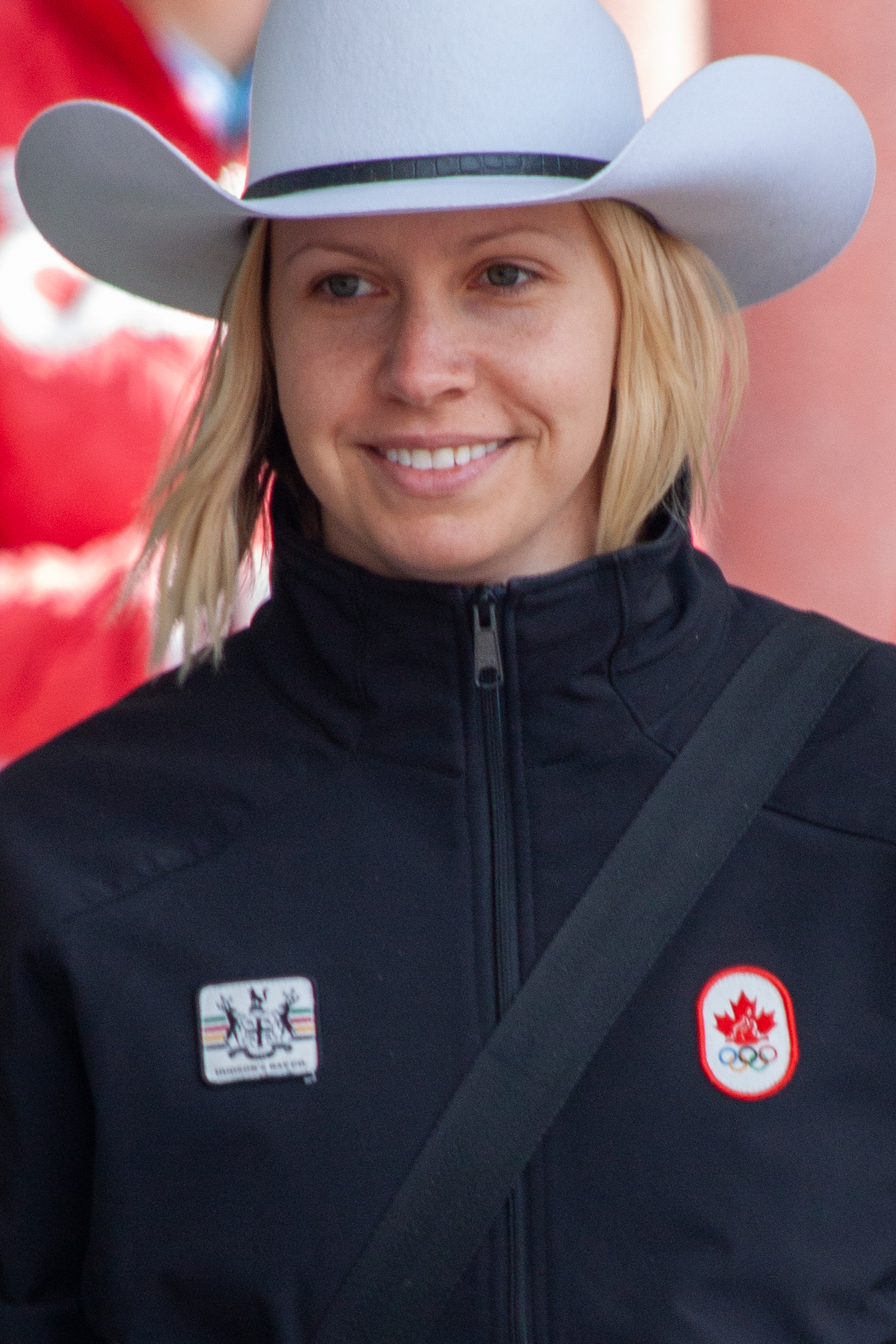 Canadian Olympic freestyle skier Veronika Bauer is seen here attending an event at Olympic Plaza in Calgary, Alberta on April 5, 2010. It was put on to celebrate Canadian athletes that participated in the then recent 2010 Winter Olympics in British Columbia.